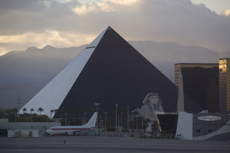 The Luxor Hotel as seen from the Las Vegas Airport.